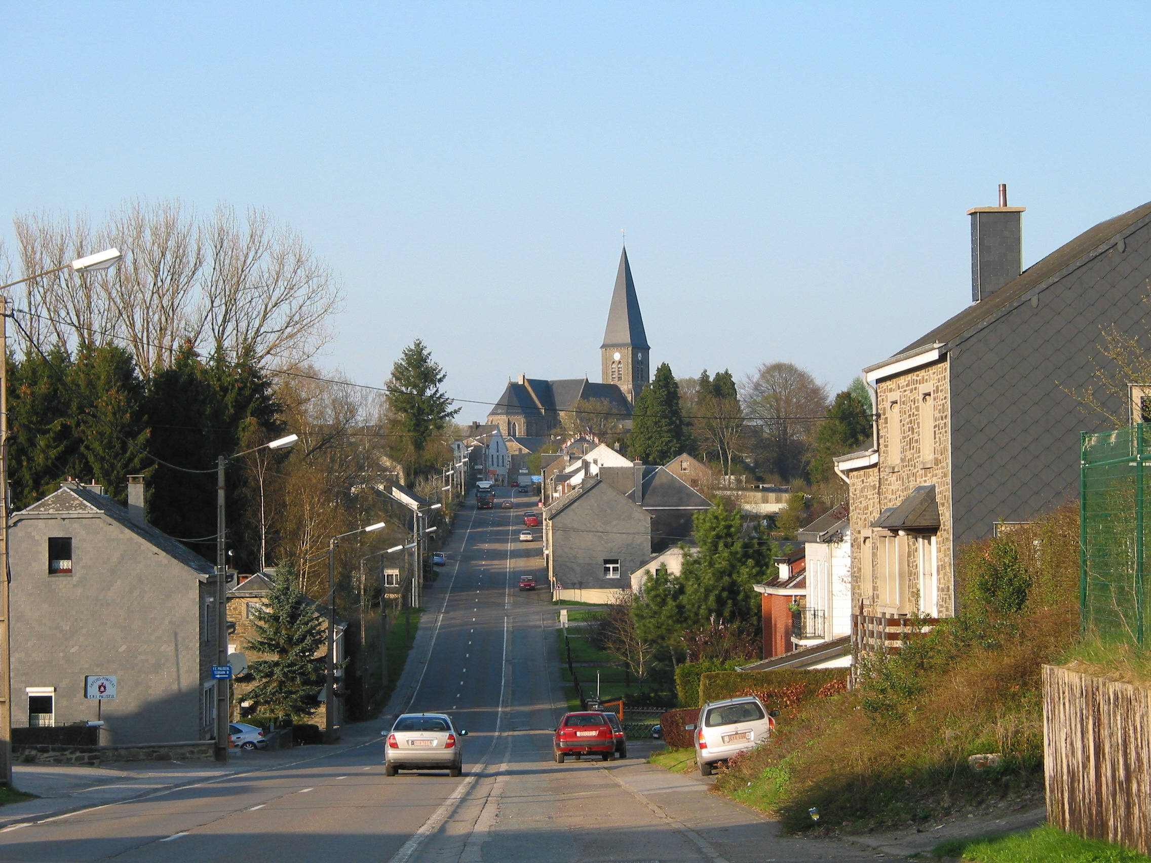 Paliseul (Belgium), the Bouillon street. Walon: Palijû (Bèljike), li rouwe di Bouyon.